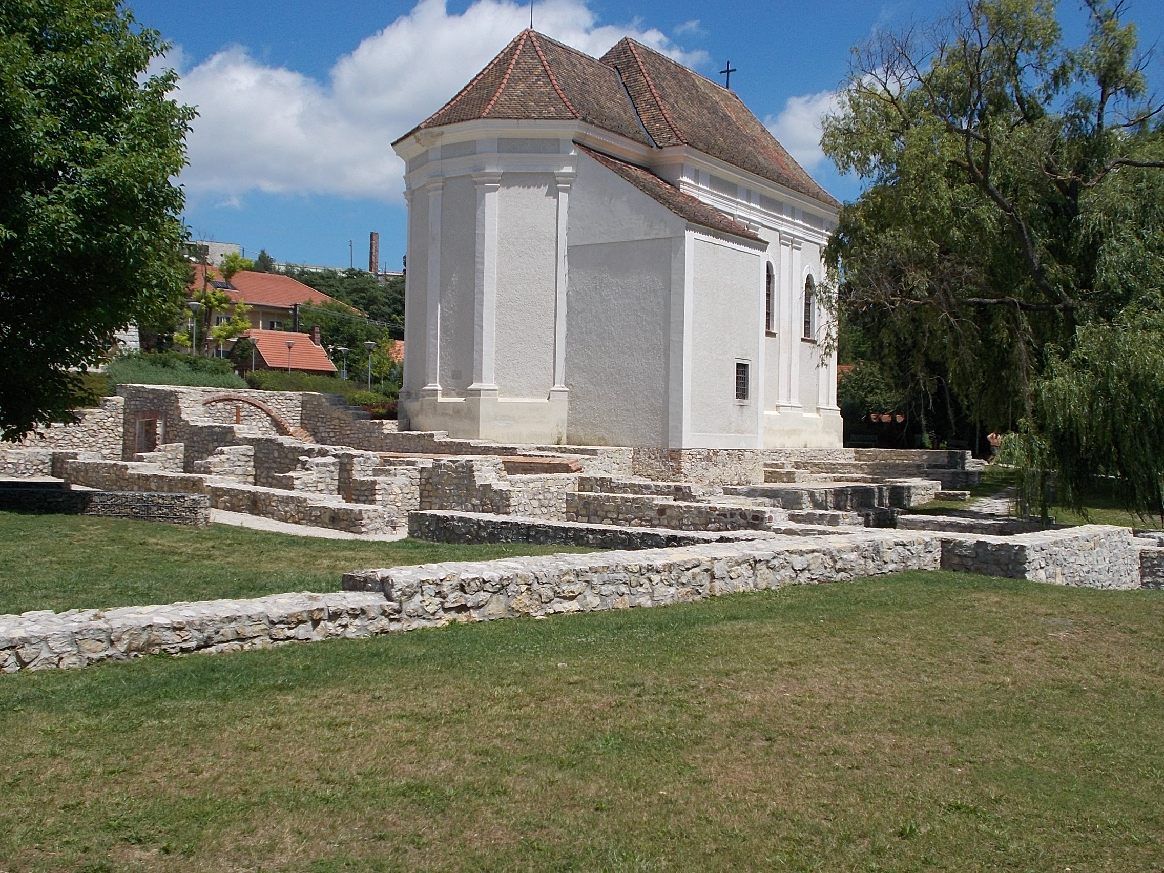 The Greek nunnery was one of the first convents in Hungary, it was founded by Saint Stephen around the Millennium in 1018 for the Greek orthodox nuns who followed the Byzantine wife of Saint Emeric and the Jesuit church It never functioned as a church. Its construction started in 1740, but only 270 years later was it finally completed in 2010. Then it was consecrated for many denominations and became a place for ecumenical services. Currently it is a location for exhibitions and concerts. Both located in Veszprémvölgy, Veszprém, Veszprém County, Hungary.